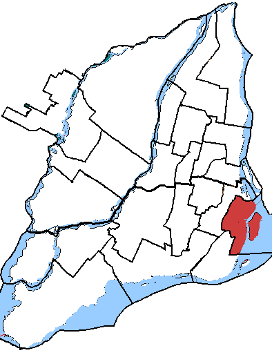 Map of the Jeanne-Le Ber electoral district. Based on Earl Andrew's maps, created by SimonP.